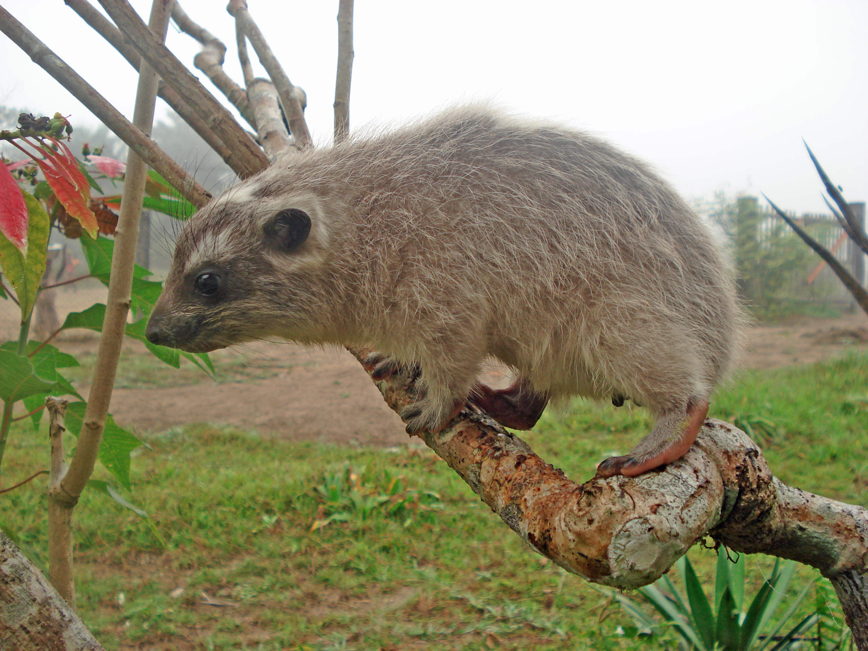 Beecroft's Tree Hyrax (Dendrohyrax dorsalis); Photo taken in Kole, Democratic Republic of the Congo